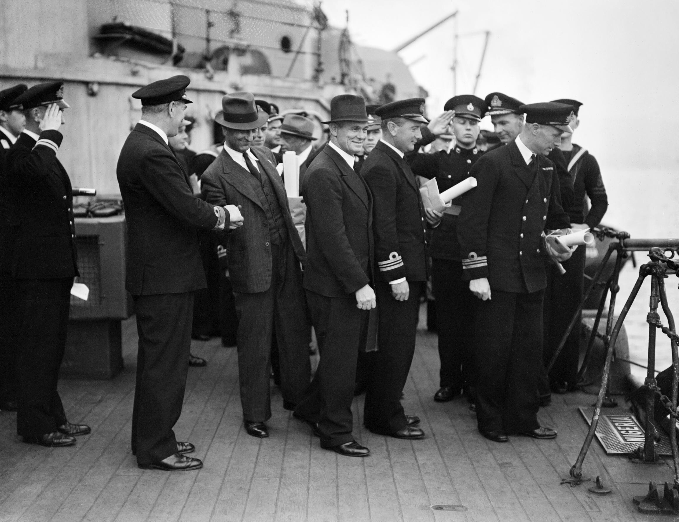 Operation Pedestal, August 1942 Preliminary movements: 3 - 10 August 1942: Rear-Admiral H M Burrough, CB, who commanded the close escort (Force X), shaking hands with Captain Dudley Mason of the tanker OHIO, after a pre-sailing conference on board HMS NIGERIA.